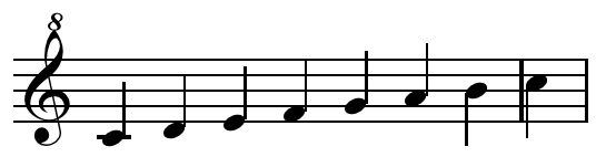 Diatonic scale on C, transposing clef.